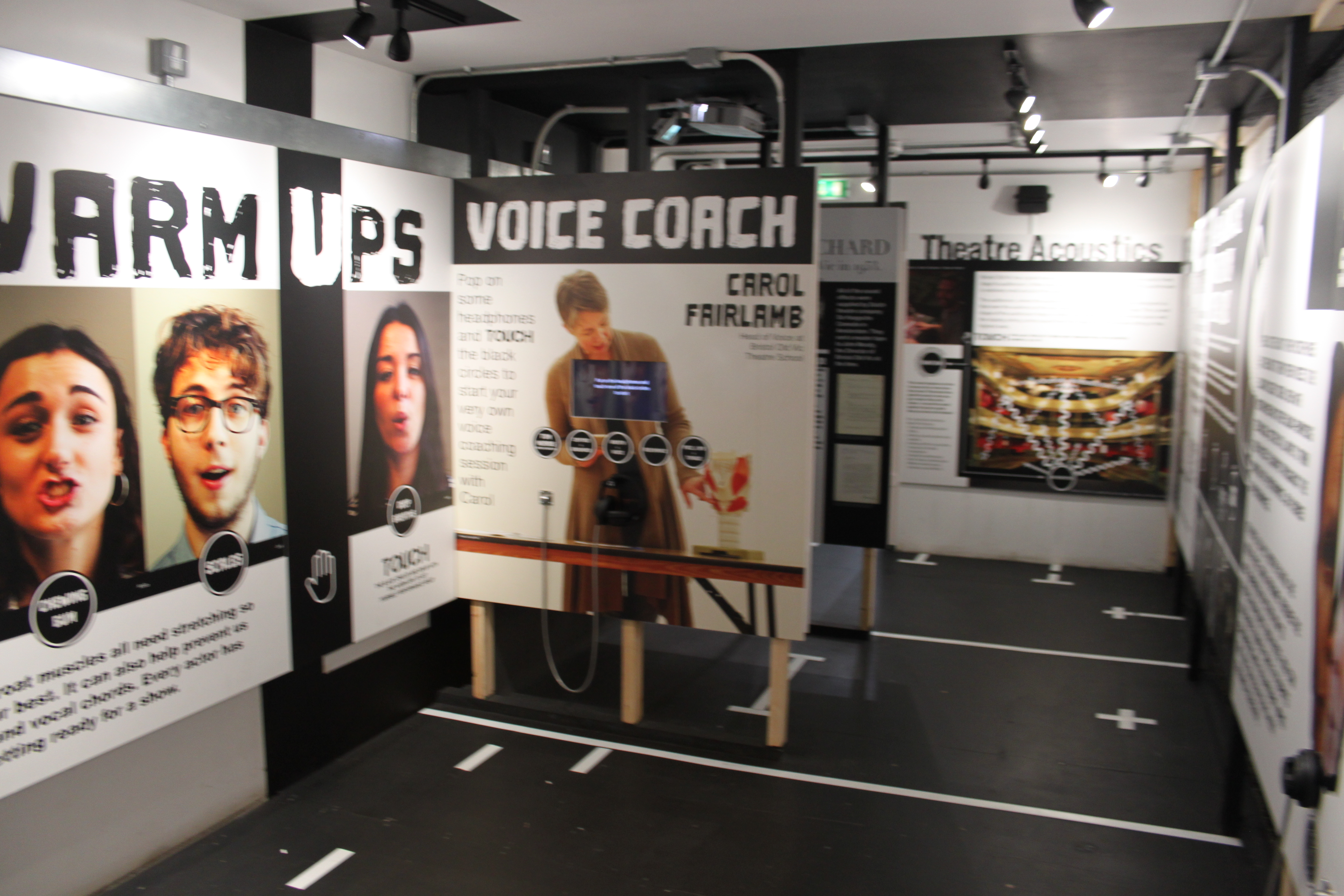 Bristol Old Vic Wikidata has entry Q917960 with data related to this item.